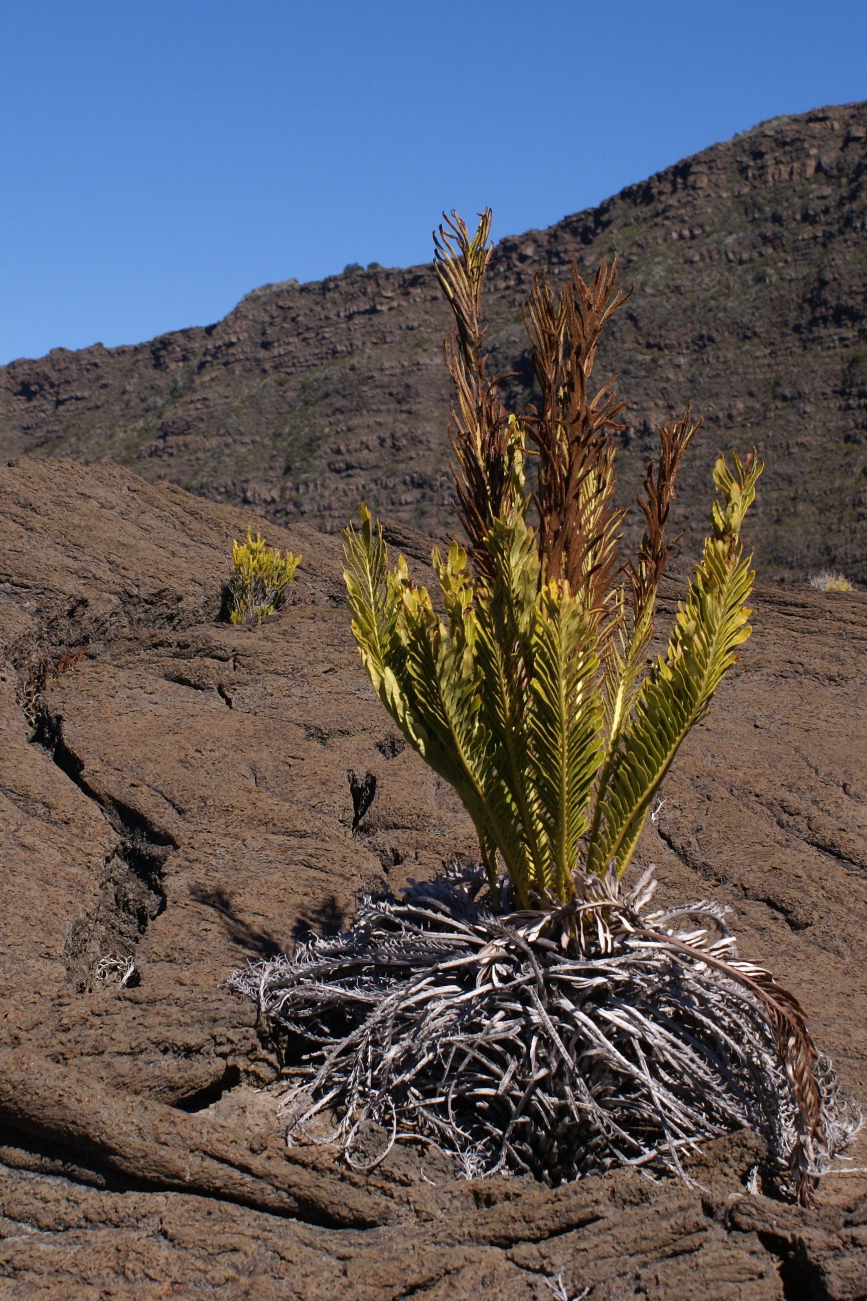 Blechnum tabulare growing on the pahoehoe lava stones of Piton de la Fournaise volcano